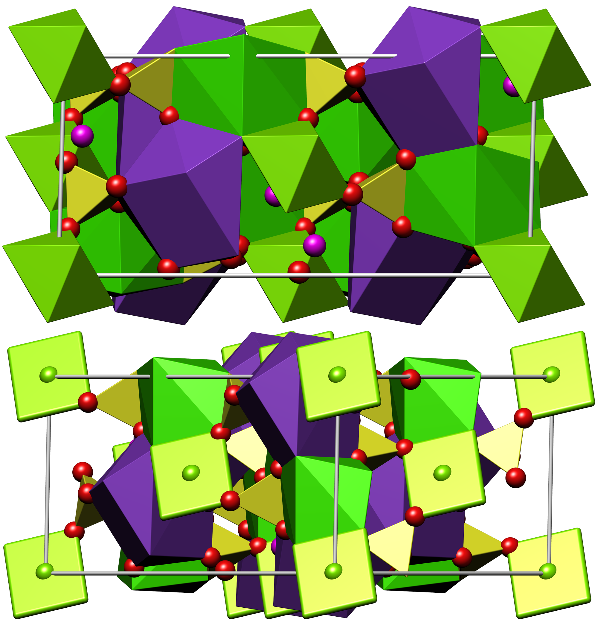 Crystal structure of polyhalite - K2Ca2Mg(SO4)4·2H2O. Schlatti M, Sahl K, Zemann A, Zemann J Colour code: Potassium, K: indigo Magnesium, Mg: bright green Calcium, Ca: green Oxygen, O: red Water, H2O: magenta Cell: white